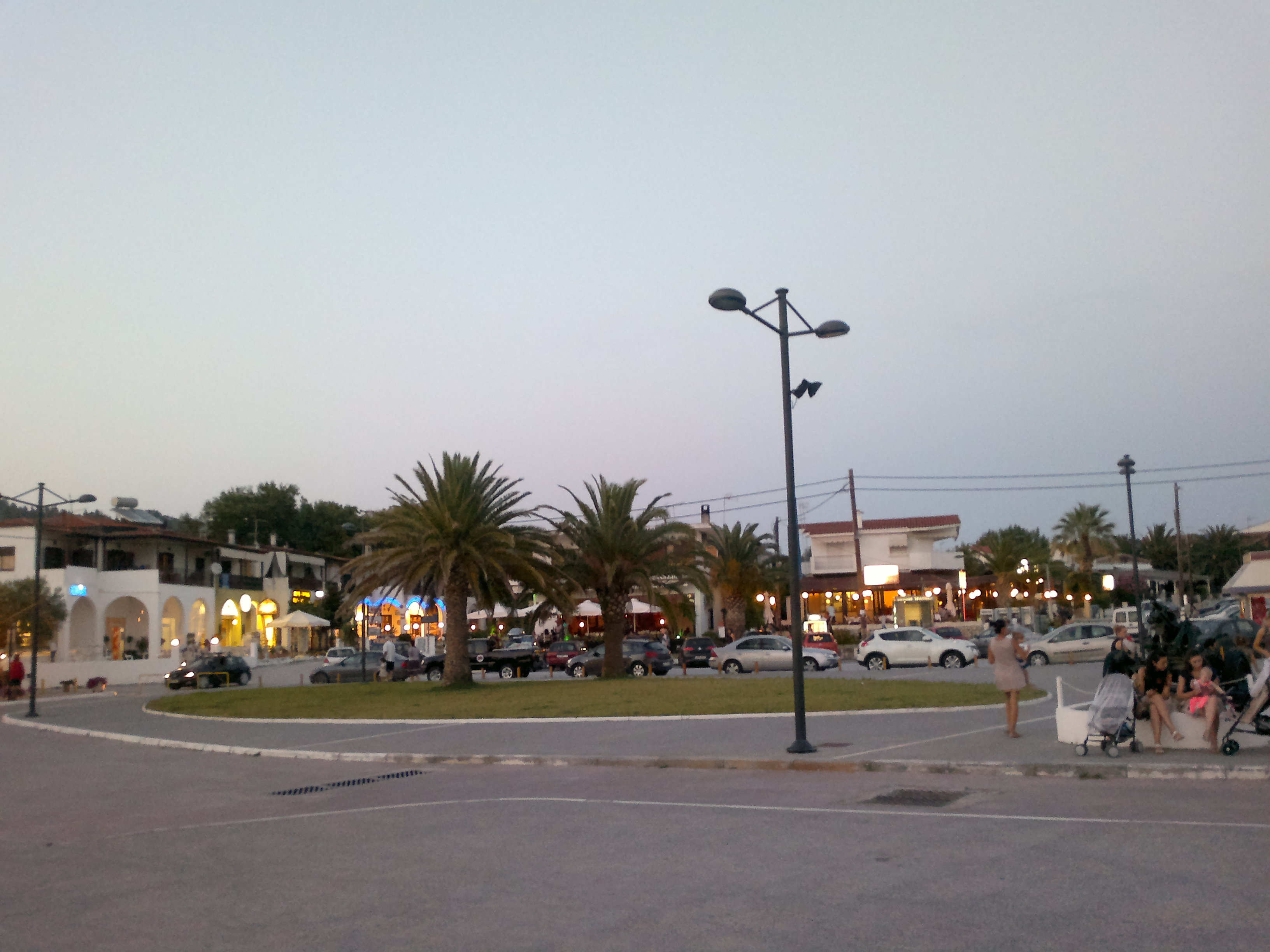 Fourka, a village on Chalkidiki, Greece